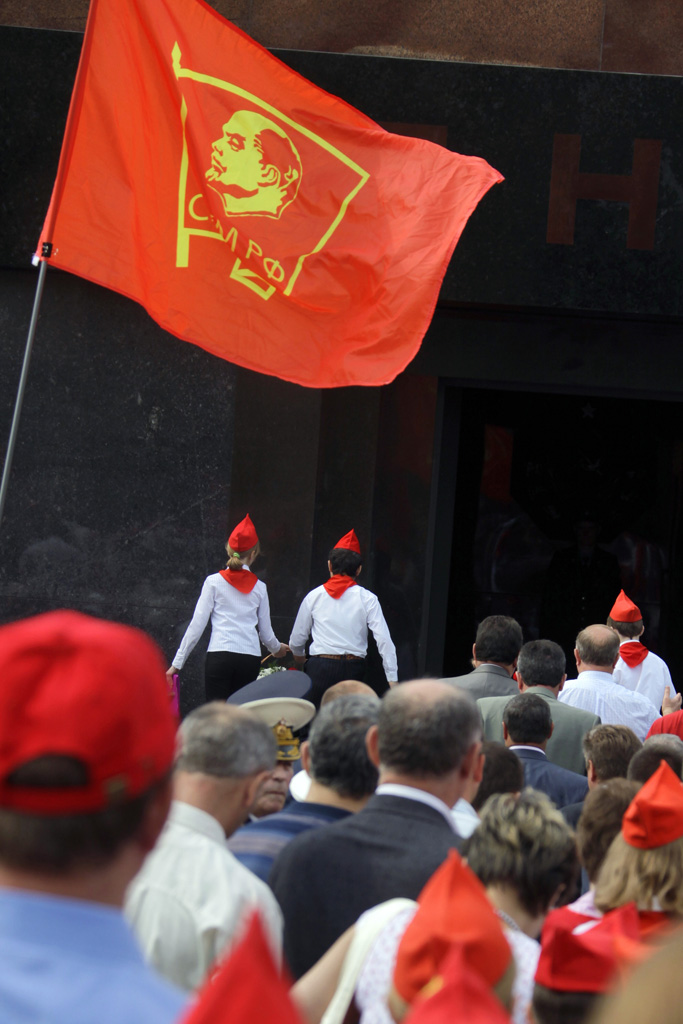 “Young Pioneer induction ceremony held at Moscow's Red Square”. Participants attending the Young Pioneer induction ceremony at Vladimir Lenin's Mausoleum on Moscow's Red Square, with Russia's Communist Union of Youth flag displayed above.